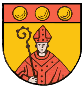 Coat of arms of Zepfenhan in Rottweil. Unter rotem Schildhaupt, darin drei goldene Kugeln nebeneinander, in Gold der wachsende hl. Nikolaus in rot-silbernem Ornat, in der Rechten einen Krummstab haltend.